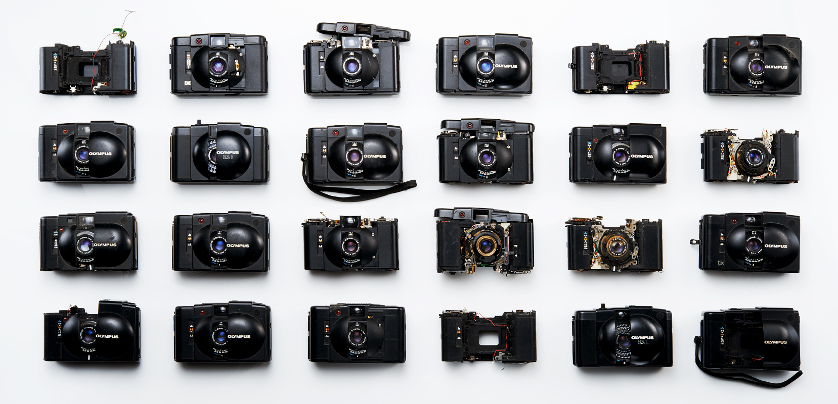 Olympus XA